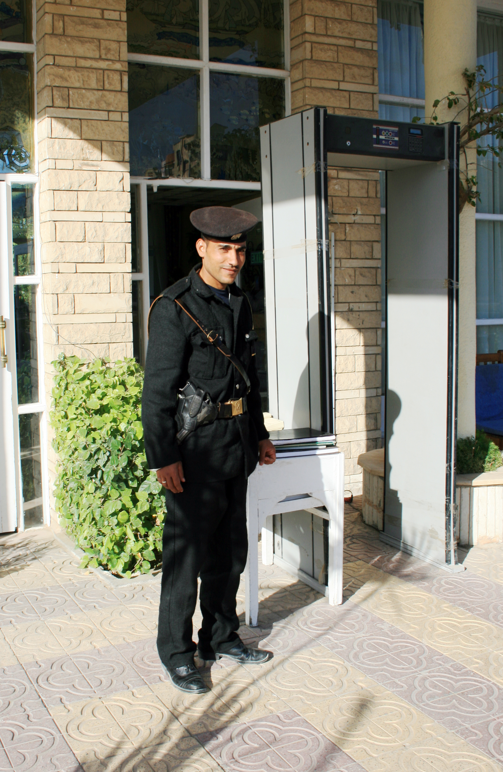 Policeman near entrance of hotel Triton Empire Beach hotel in Hurghada, Egypt